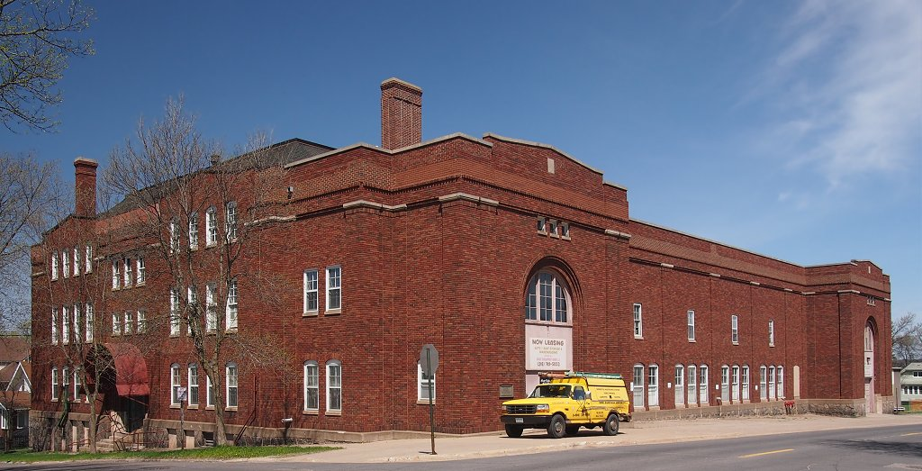 Eveleth Recreation Building, Eveleth, Minnesota, USA. Viewed from the southeast.